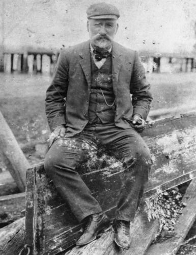 Welsby casual portrait